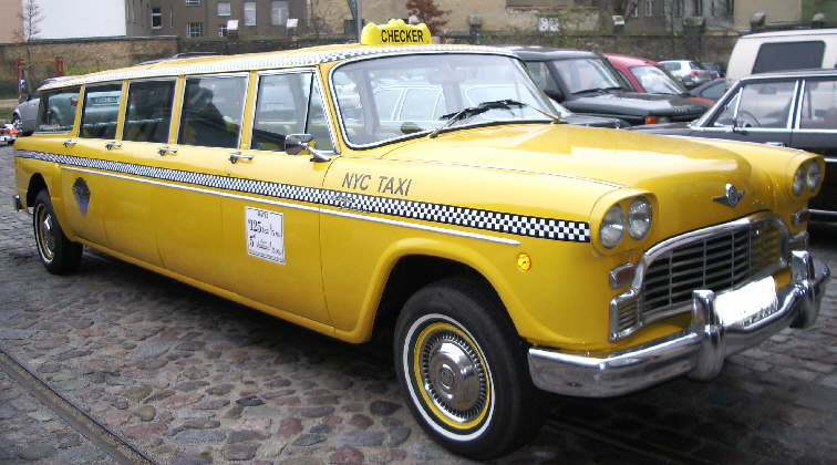 Checker Cab, selbst fotografiert. first upload in de wikipedia on 18:03, 19. Jan 2006 by Huhu